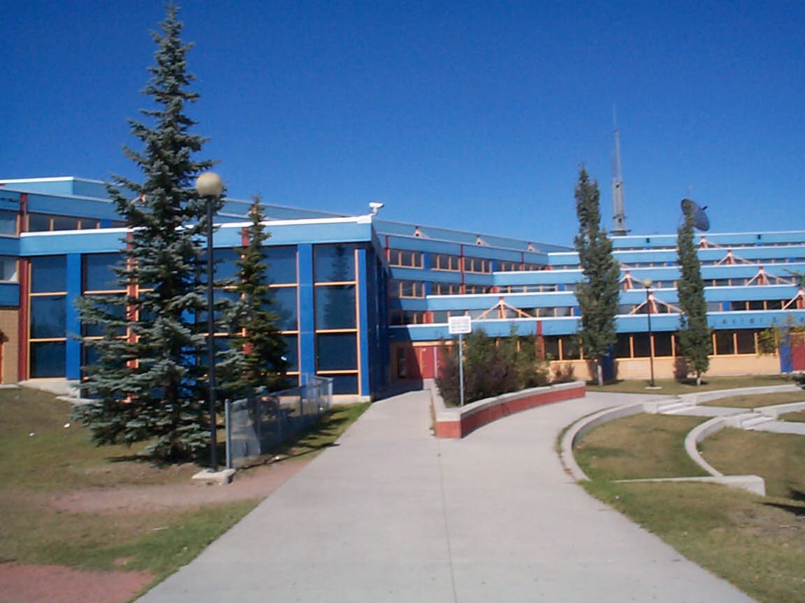 Lester B. Pearson High School is a public senior high school operated by the Calgary Board of Education. Its address is 3020 - 52 Street N.E., Calgary, Alberta, Canada, T1Y 5P4.